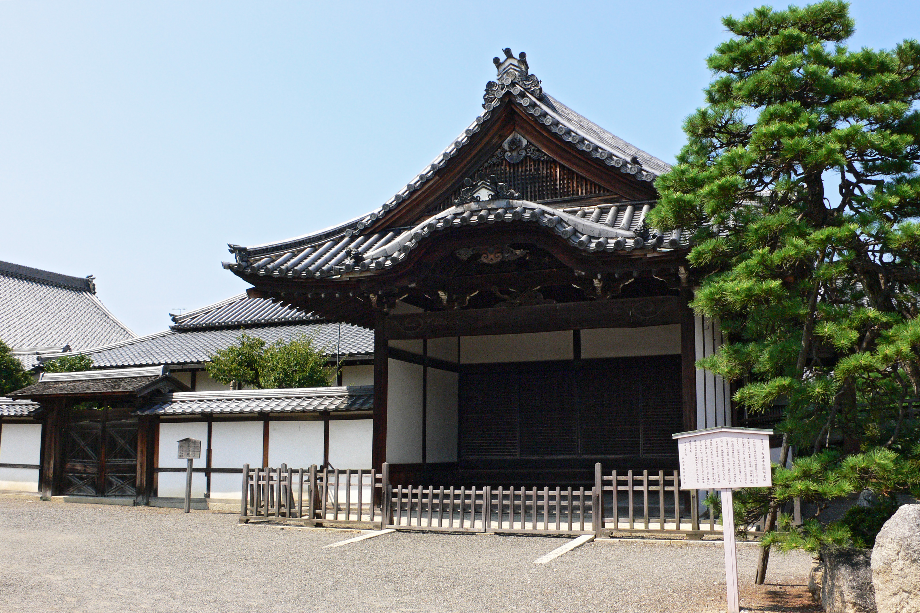 Daitsuji in Nagahama, Shiga prefecture, Japan